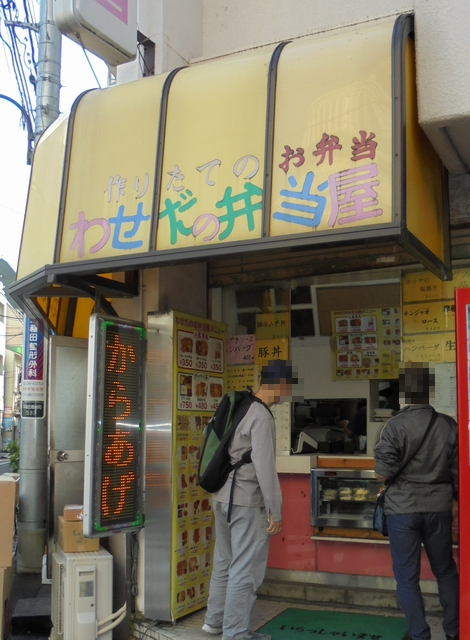 Waseda no bento-ya, Shinjuku in Tokyo, Japan.